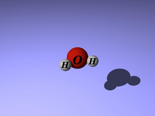 Author: David Gaya Created with: KPovModeler